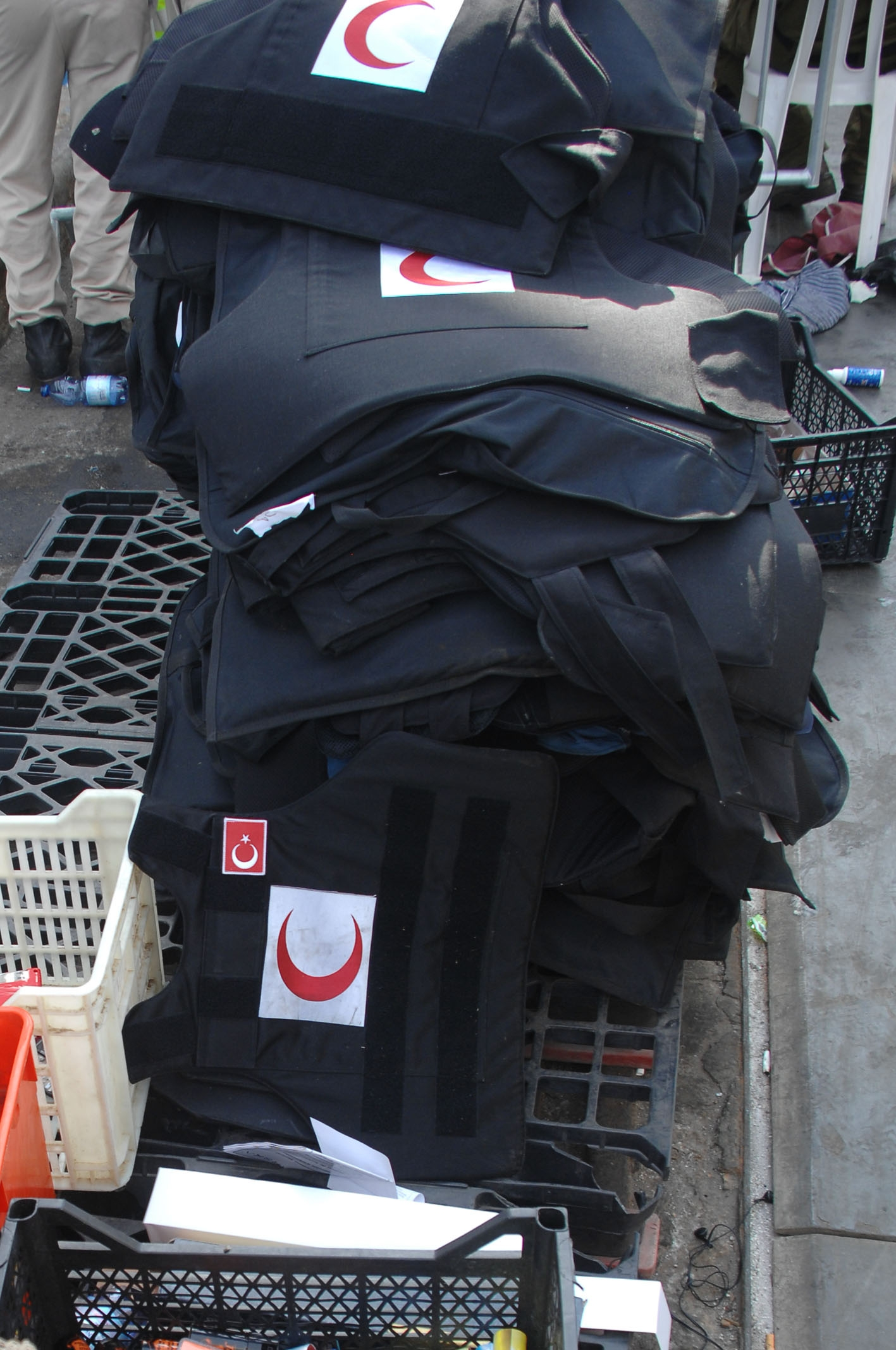 IDF soldiers who boarded the Mavi Marmara ship in order to enforce the maritime closure on Gaza, were met with a violent mob armed with clubs, slingshots, saws, knives, and used live fire against the IDF soldiers. Pictured here: Bulletproof vests found on the deck of the Marmara. For more information: wp.me/ppbEs-rM